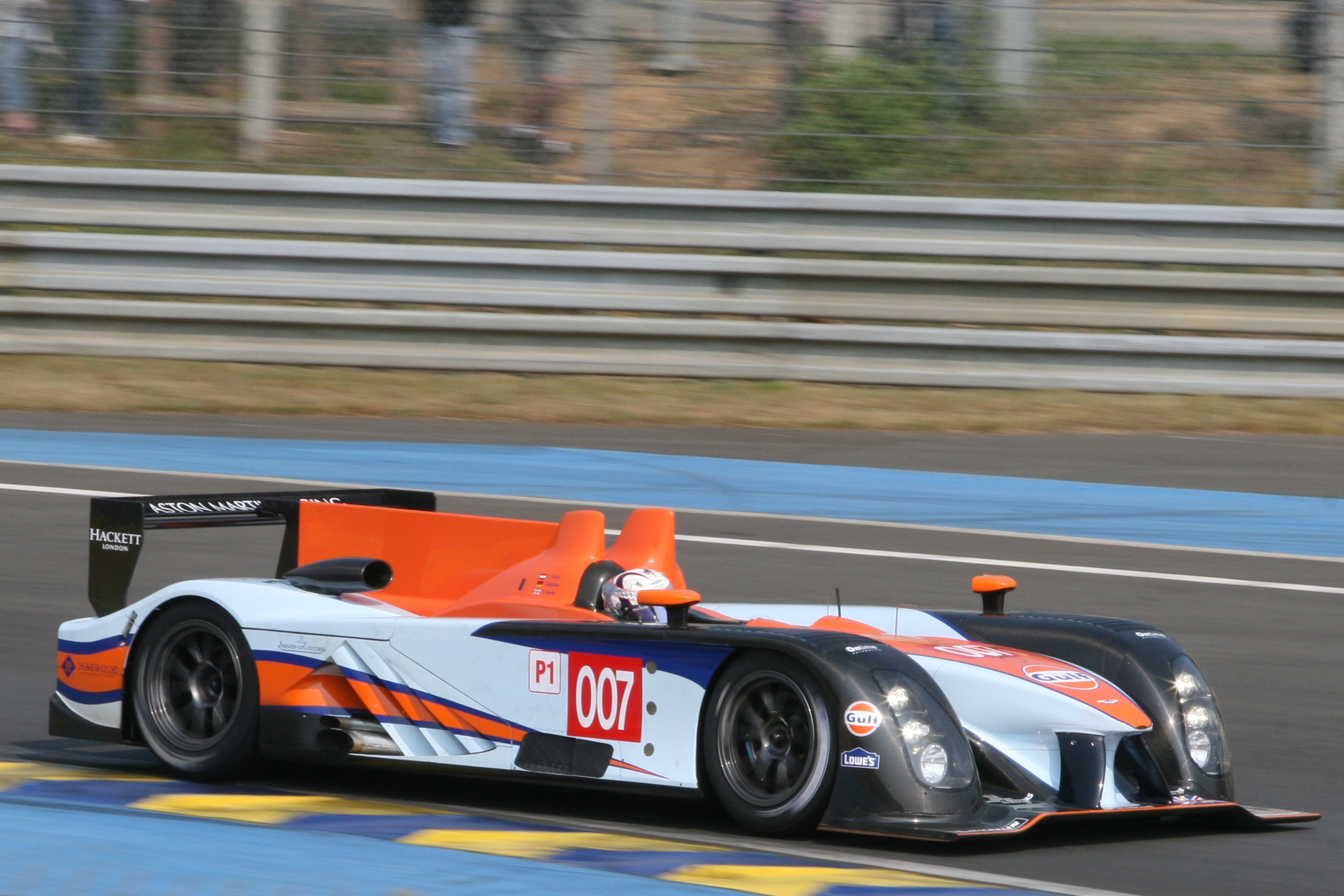 Aston Martin AMR-One at Le Mans Pretest 2011